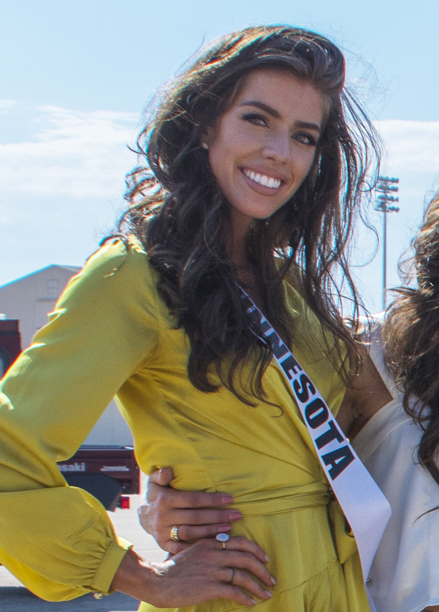 Contestants in the 2018 Miss USA pageant visit Barksdale Air Force Base, Louisiana, May 15, 2018.(U.S. Air Force photo by Airman Maxwell Daigle/Released)